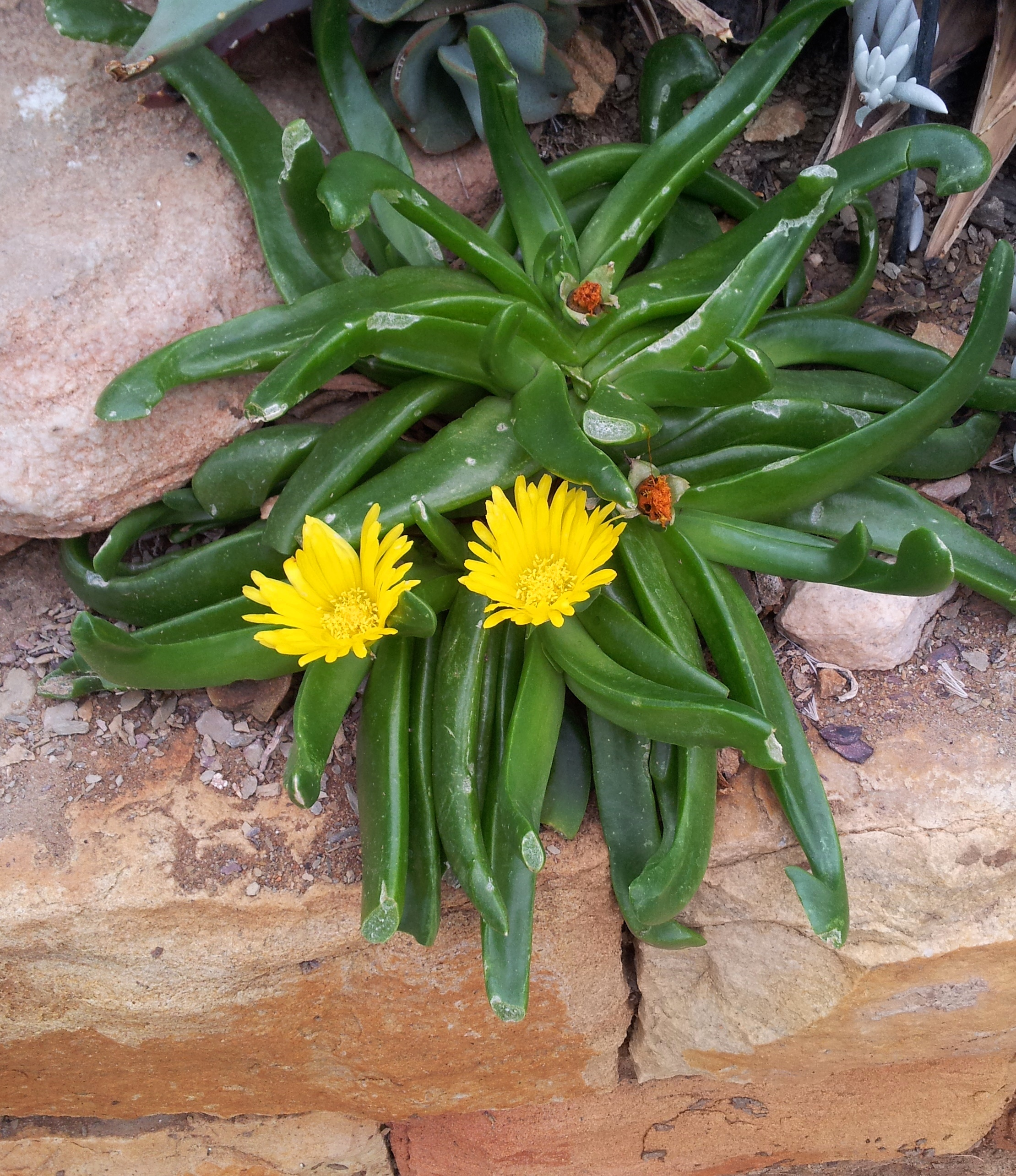 Glottiphyllum longum - Kirstenbosch gardens